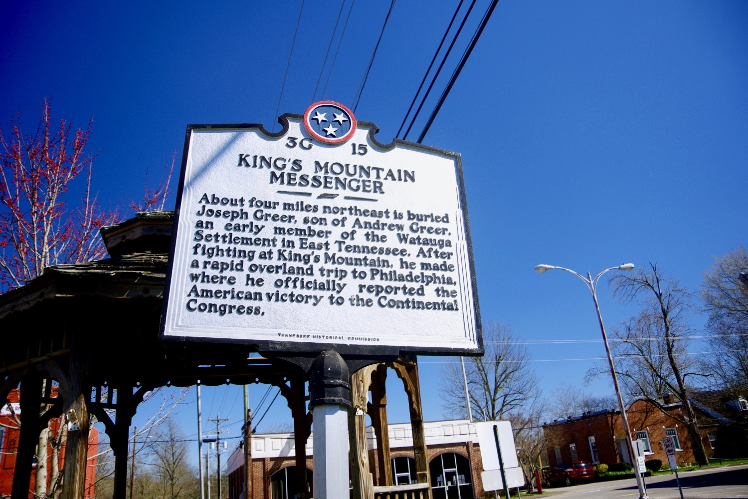 Tennessee Historical Commission marker honoring the "Kings Mountain Messenger," Joseph Greer (1754–1831).